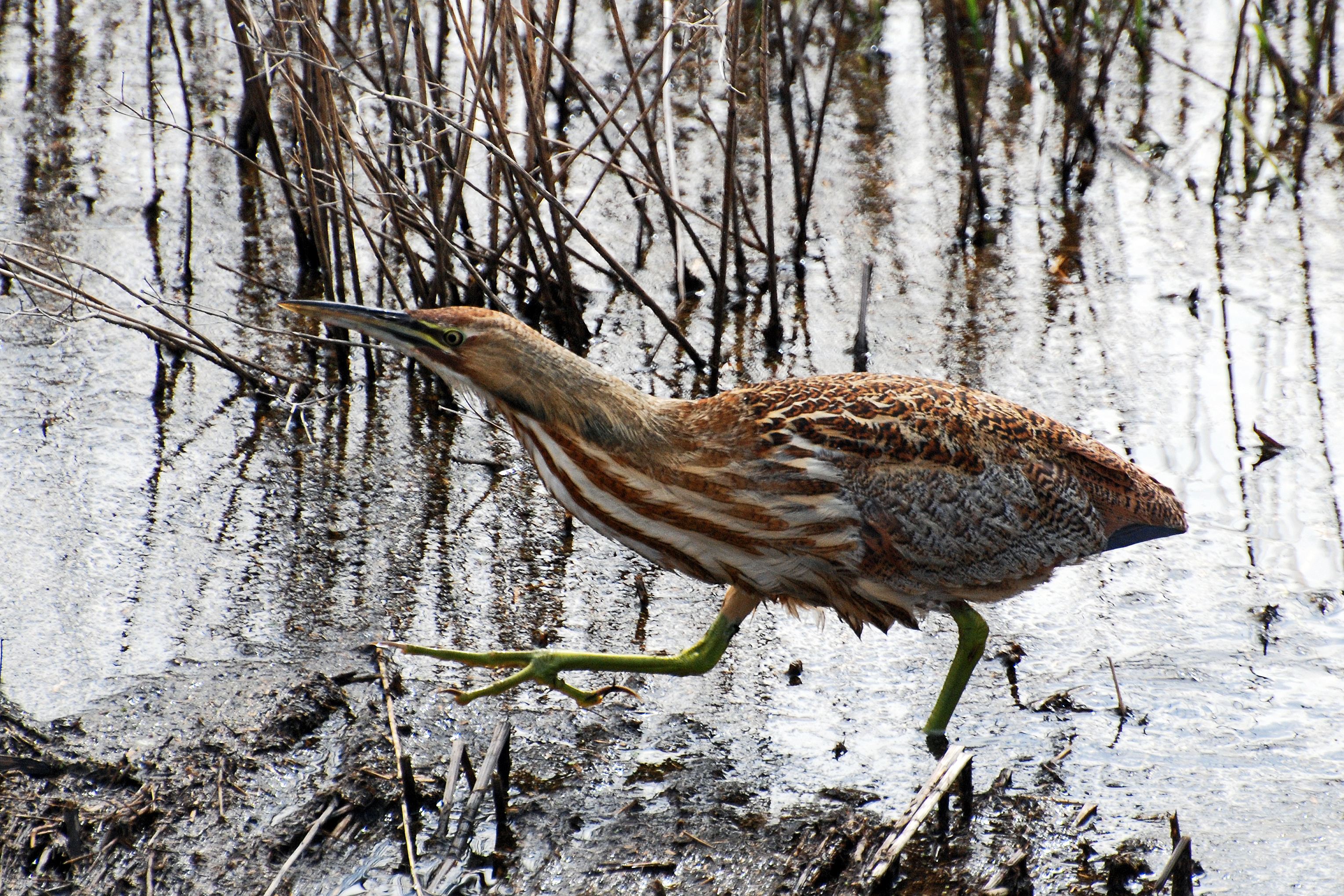 The American Bittern (Botaurus lentiginosus) is a wading bird of the heron family Ardeidae. The American Bittern is usually well-hidden in bogs, marshes and wet meadows; usually solitary, it walks stealthily among cattails.